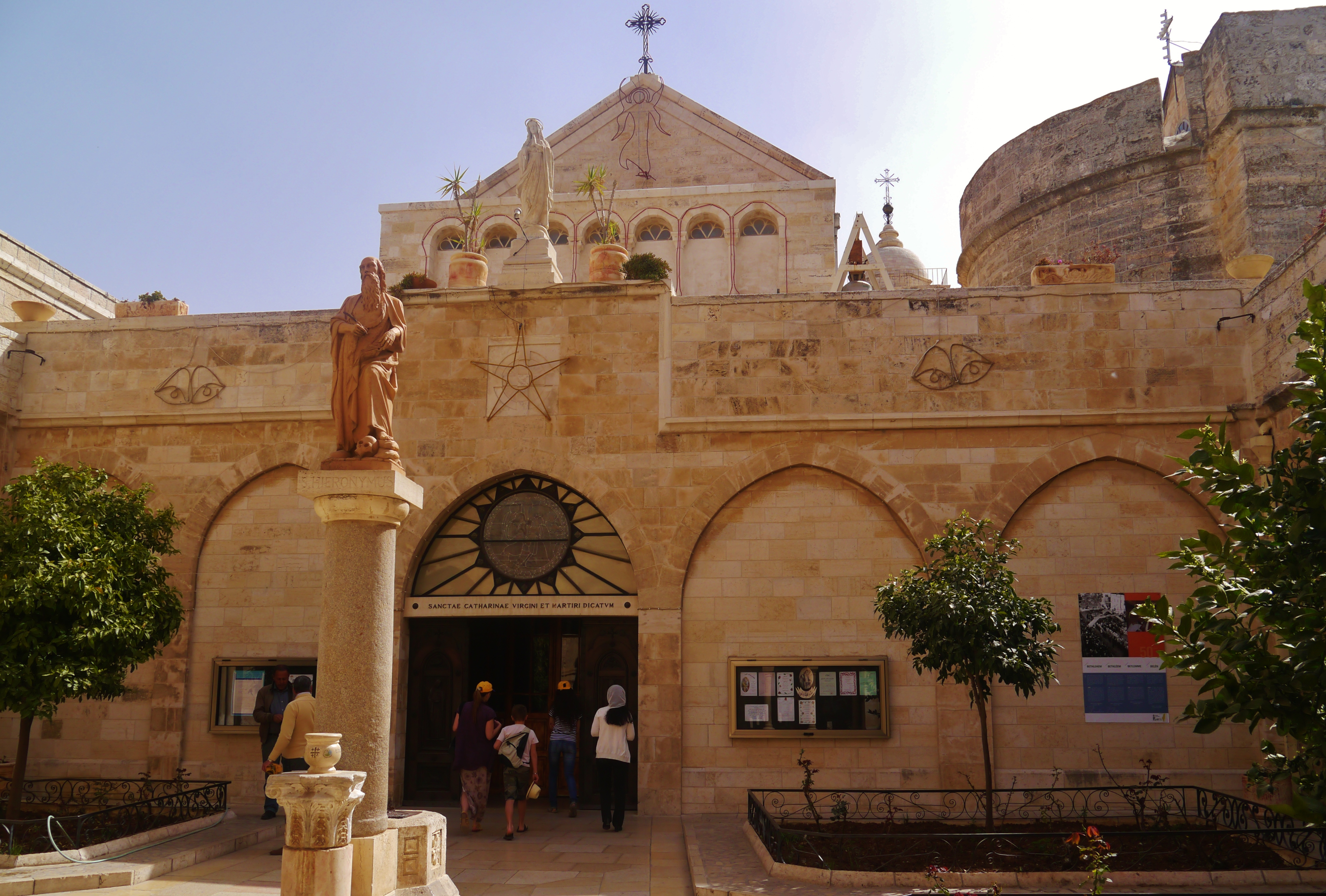 Facade of St. Catherine, Bethlehem, Palestine